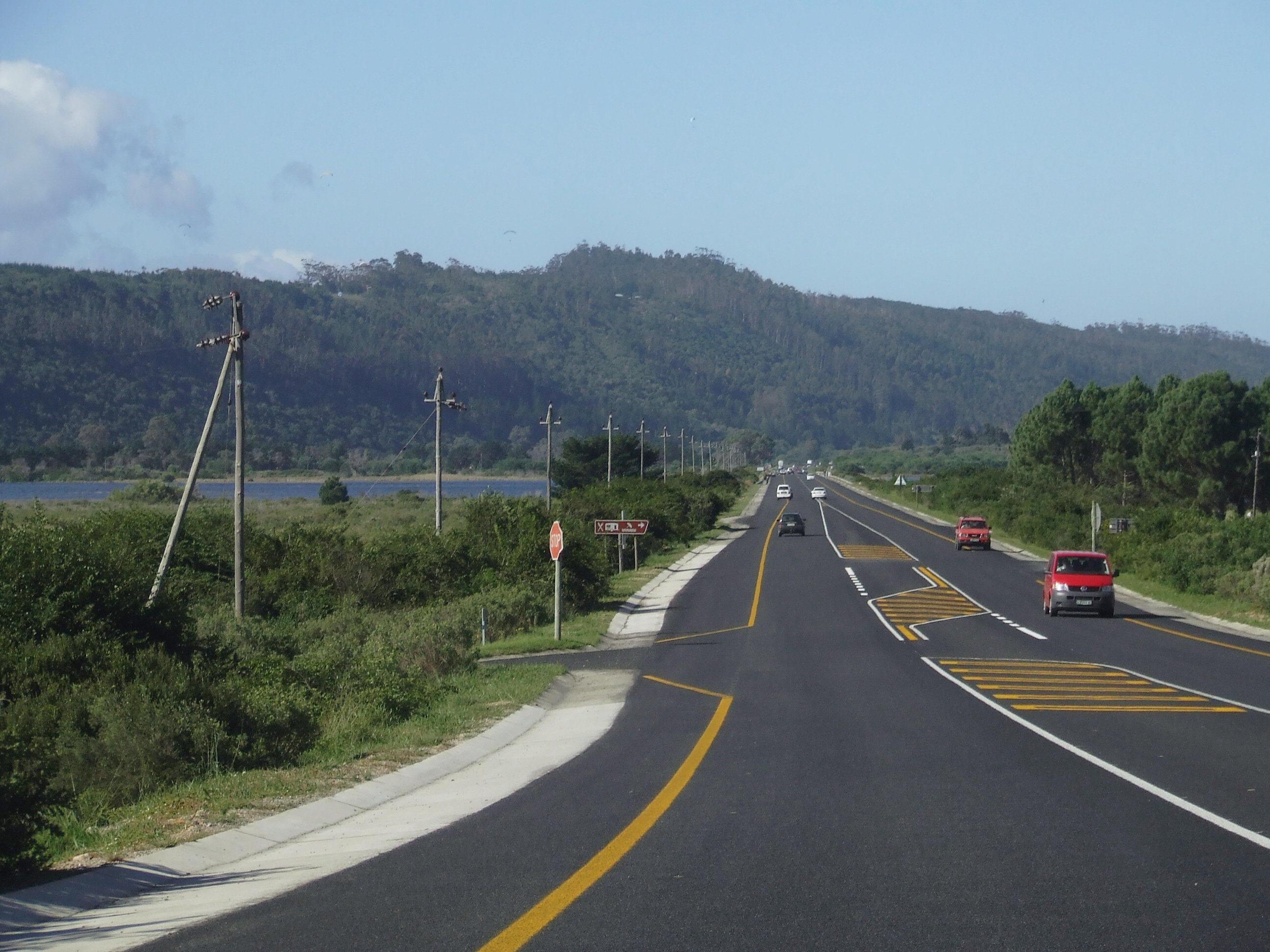 N2 crosses Swartvlei near Sedgefield